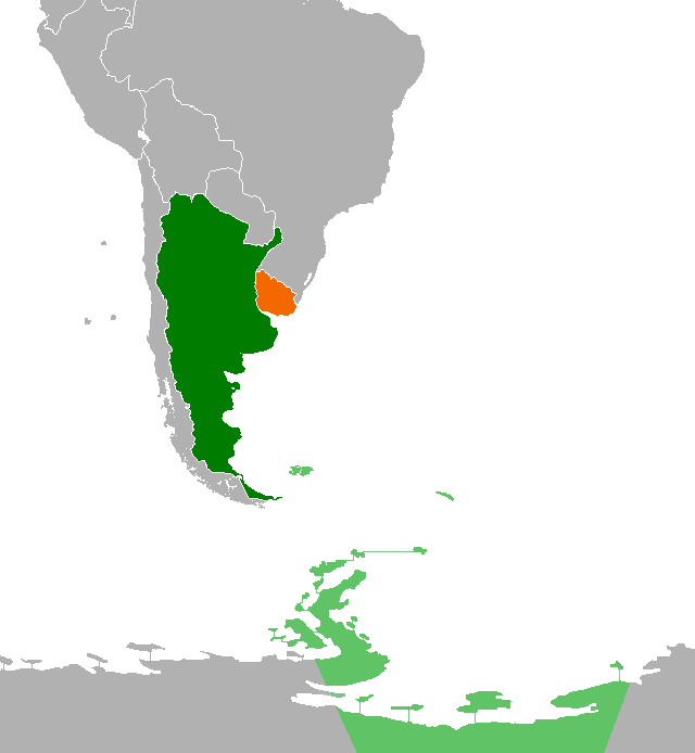 I made this map out of a licence free blank map of the world.